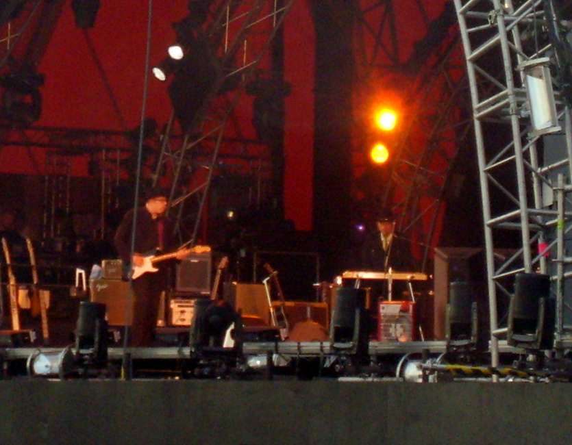 Bob Dylan (right on keyboards) playing at the Roskilde Festival.